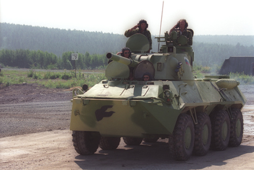 NIZHNY TAGIL. President Putin visiting the Second Ural Expo Arms. The vehicle is a 2S23 Nona-SVK